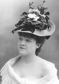 Ellen Andrée